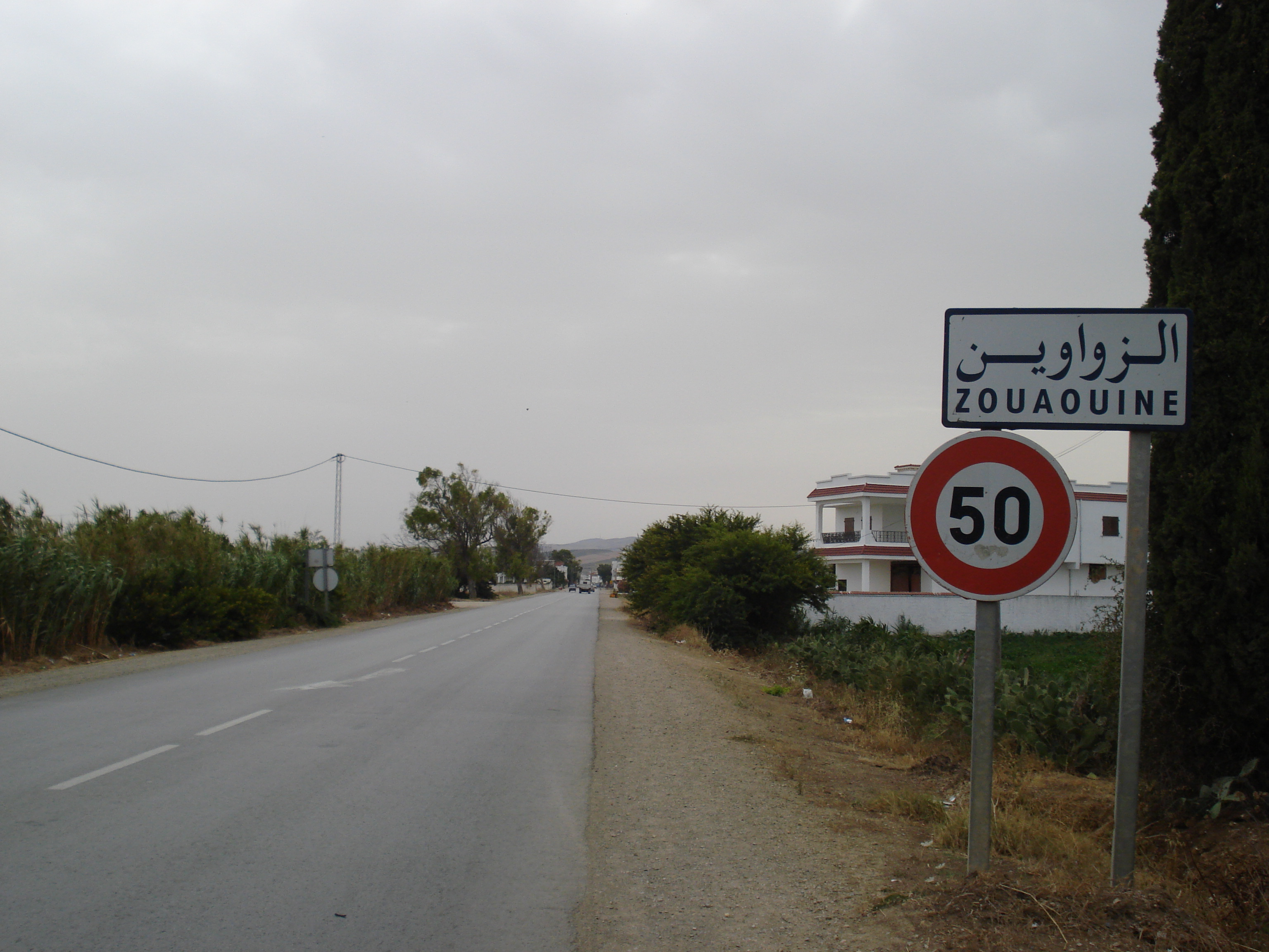 Zouaouine city, governorate of Bizerte.